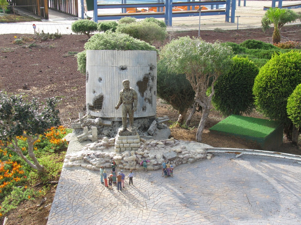 Monument of the Warsaw Ghetto Uprising commander, Mordechai Anielewicz